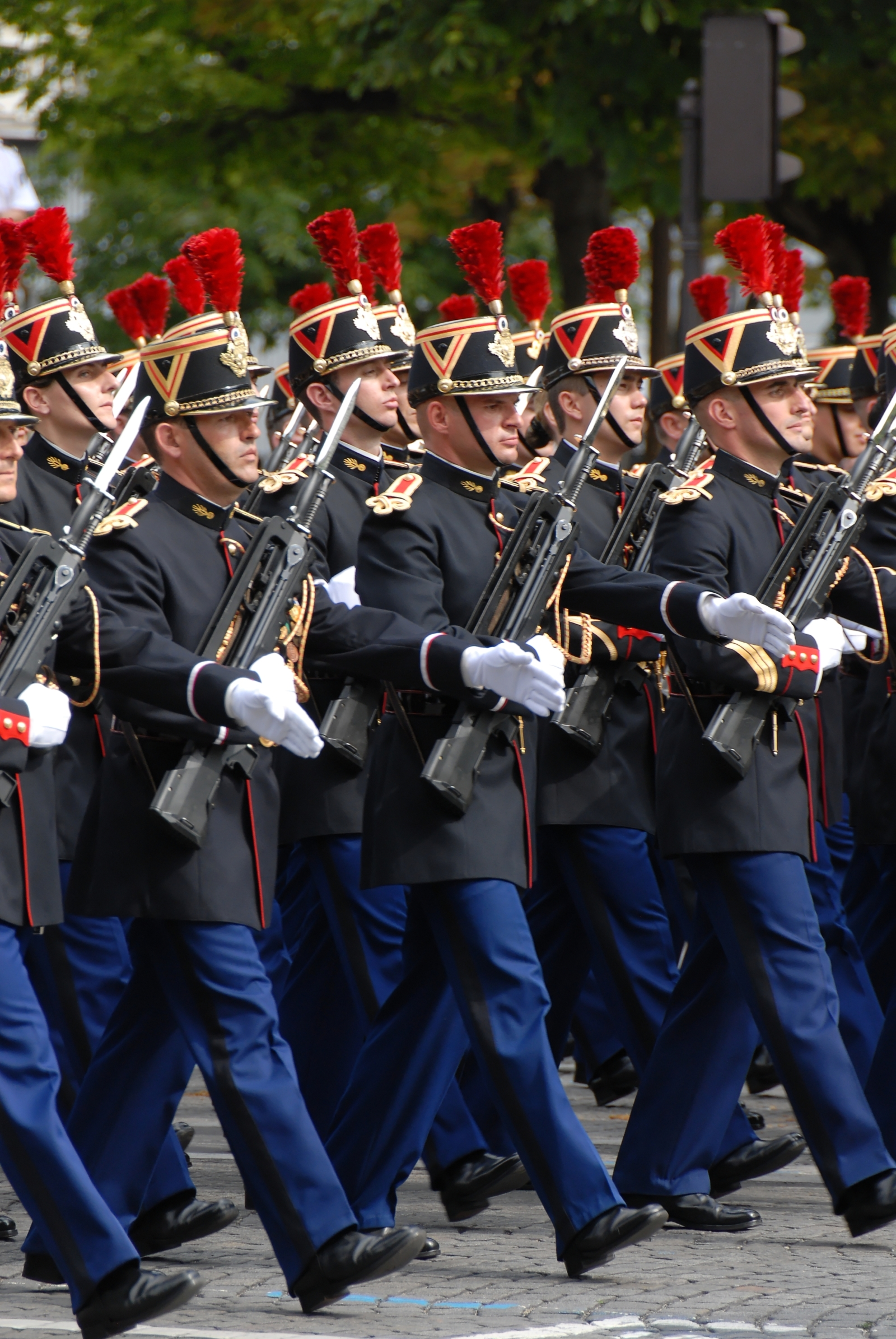 Soldiers of the 1st Infantry Regiment of the French Republican Guard during the 2007 military parade on the Champs-Élysées.